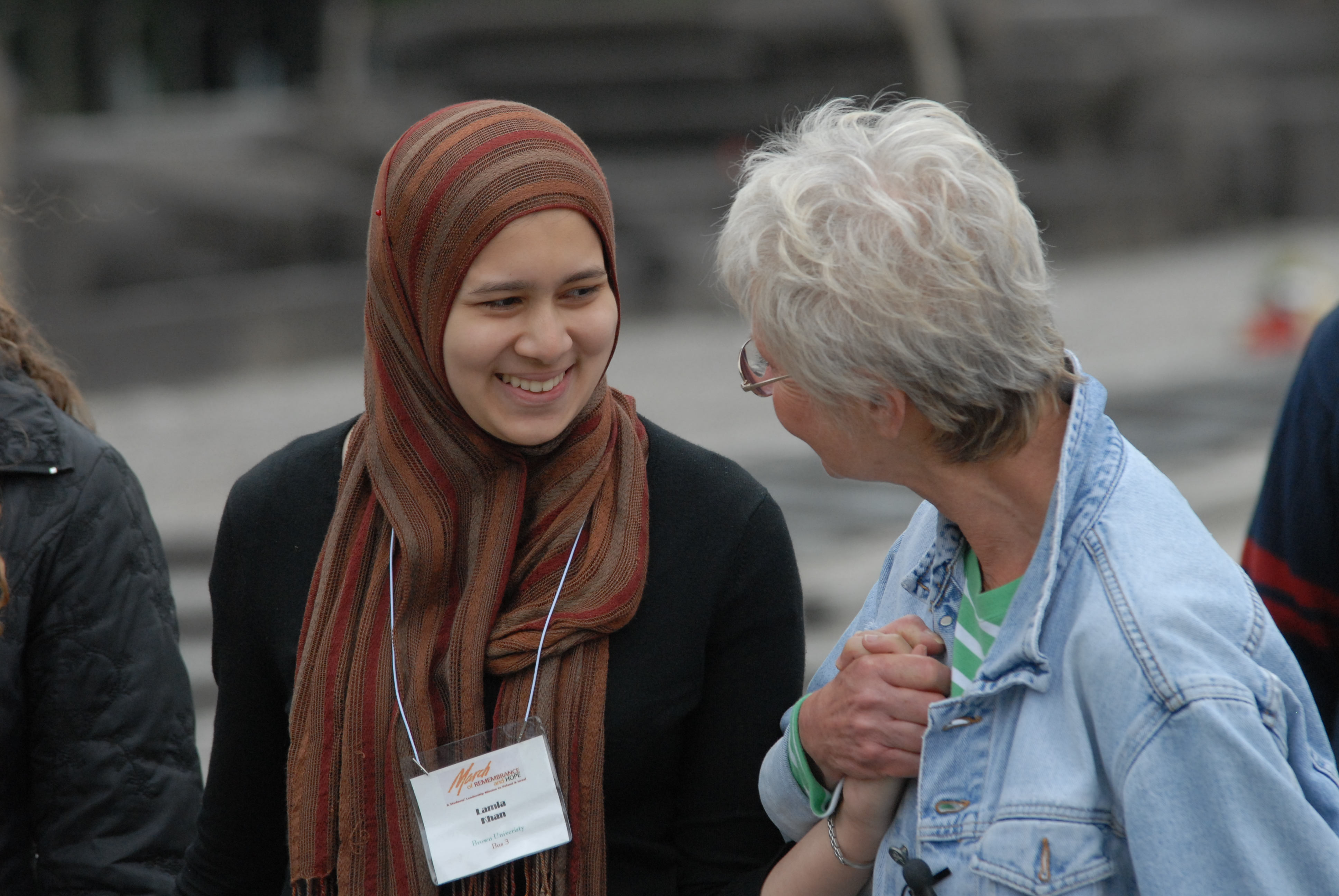 Muslim Student and Holocaust Survivor Holding Hands in Auschwitz-Birkenau on the 2006 March of Remembrance and Hope program